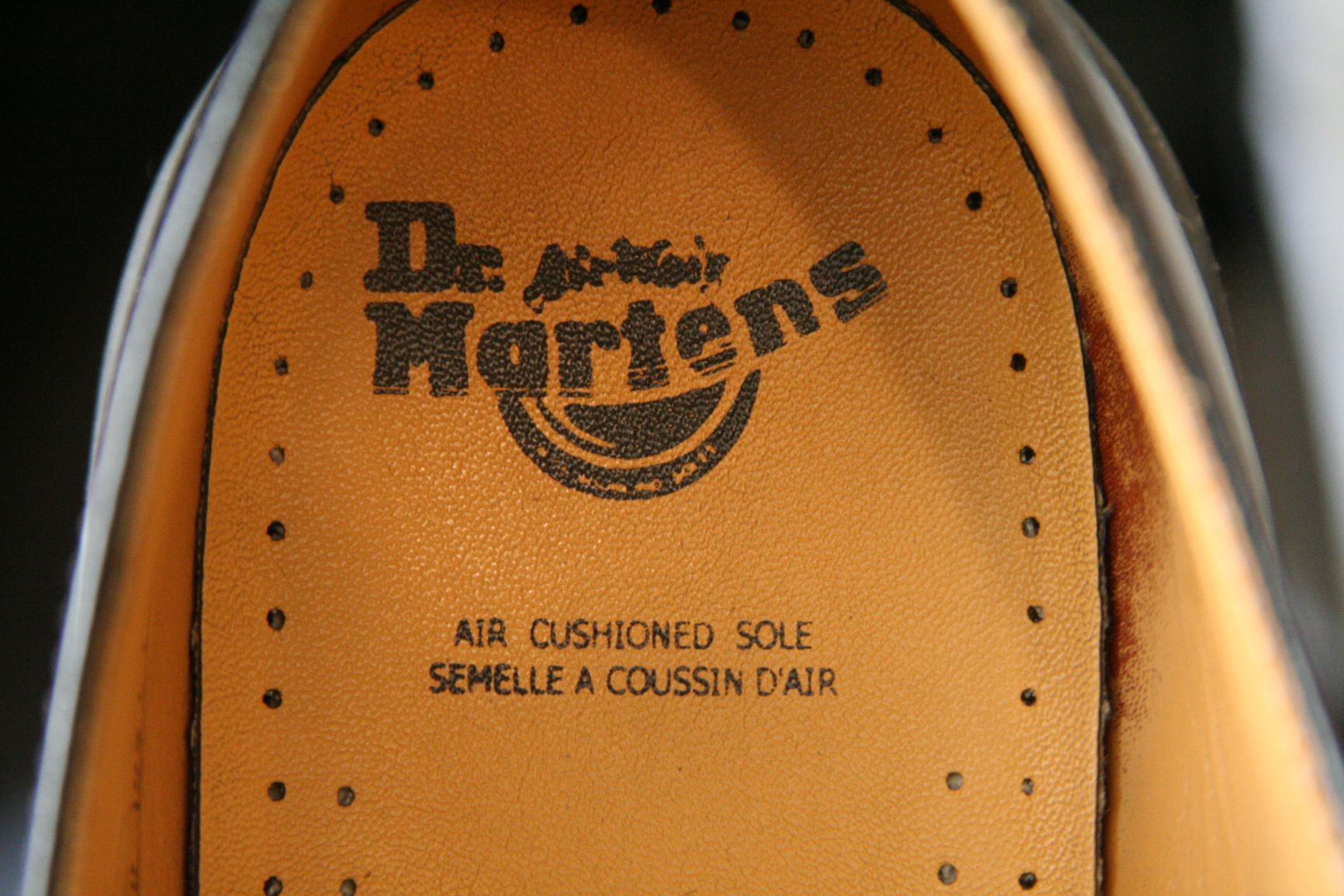 Inside of post-2003 Doc Martens. This pair was made in Thailand.